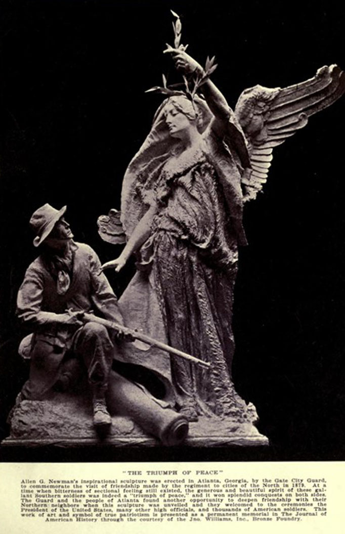 The Triumph of Peace (1911), Allen G. Newman, sculptor. The bronze sculpture was installed in Piedmont Park, Atlanta Georgia.